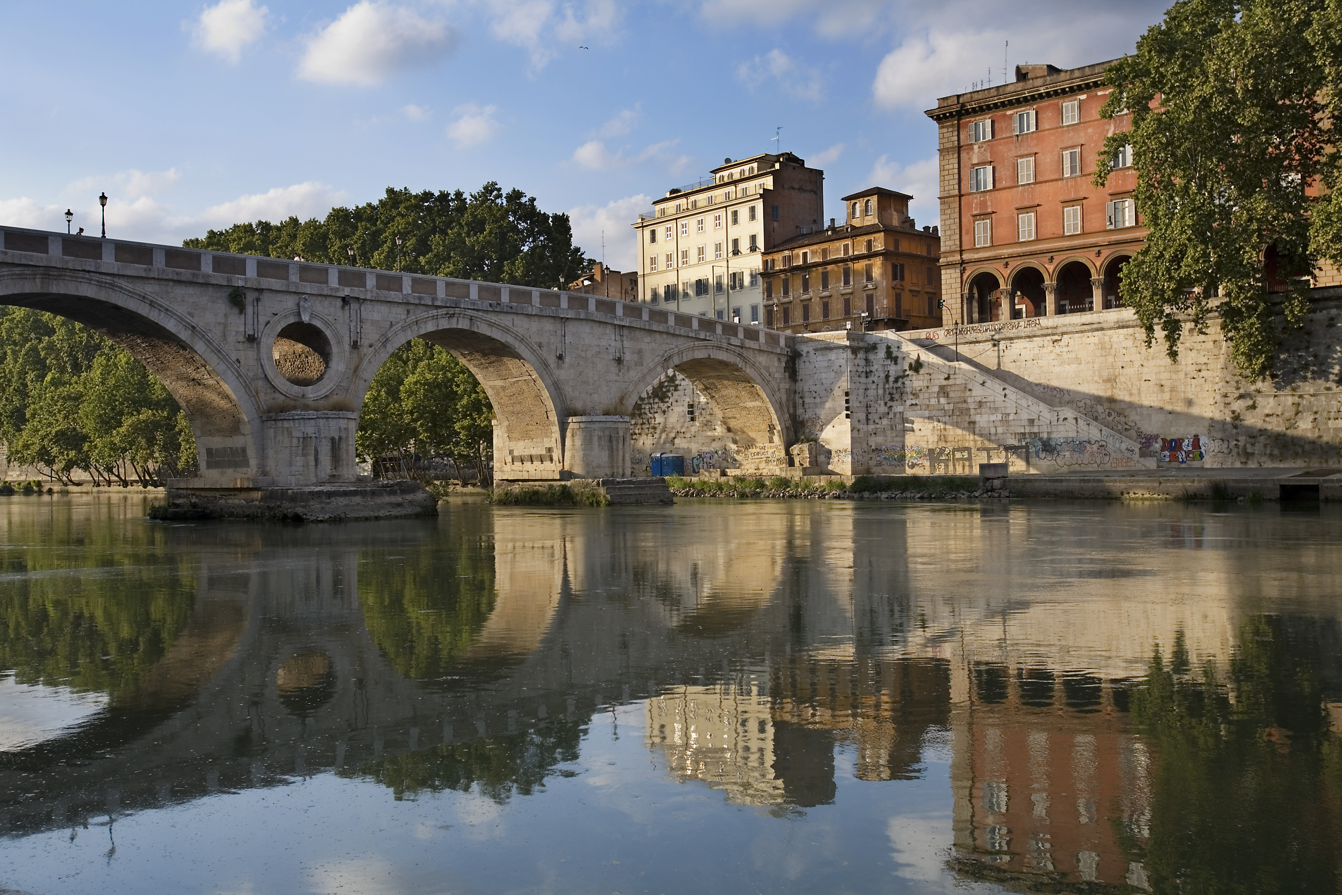 A bridge on the Tiber River, Rome, Italy